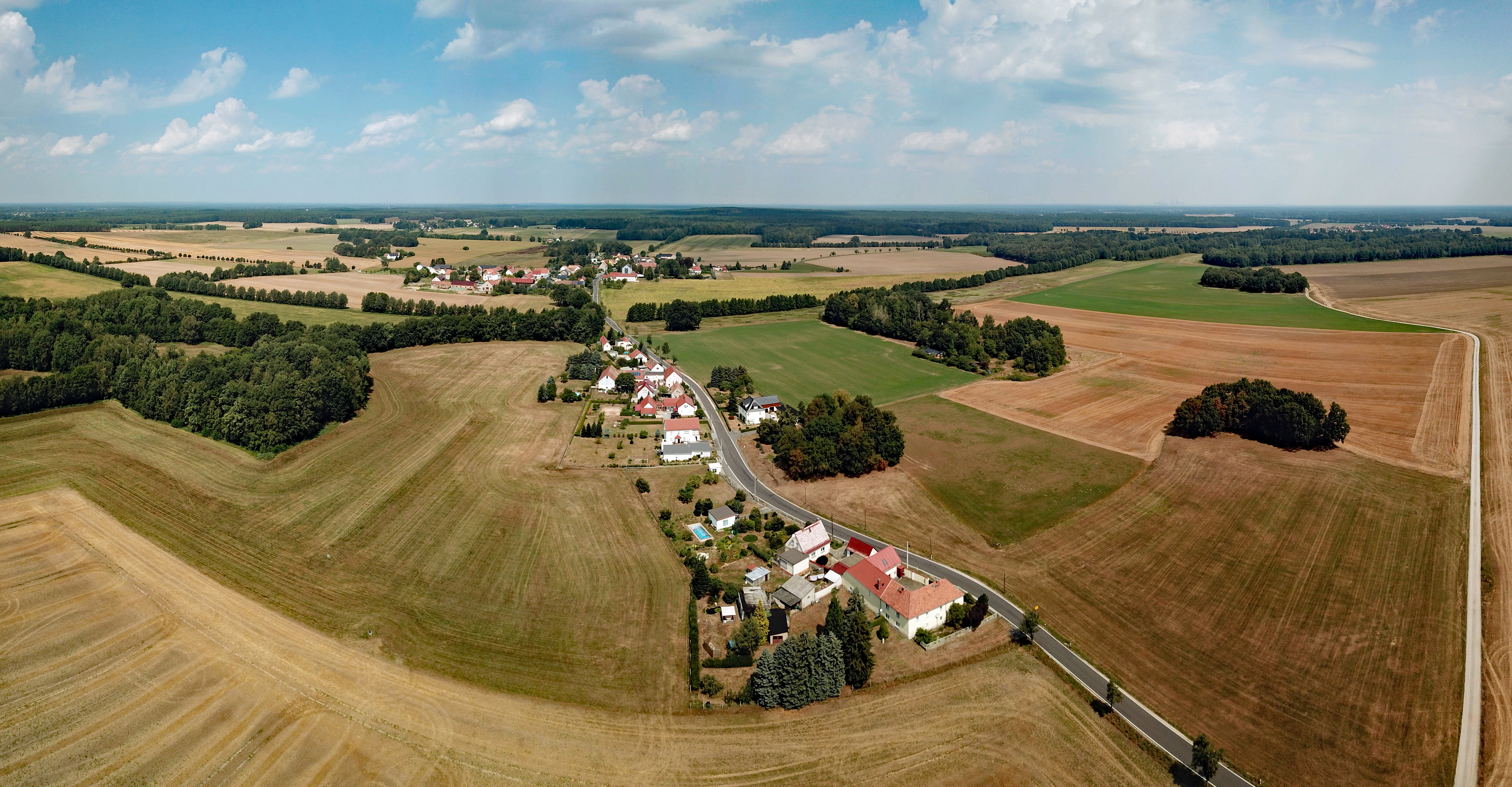 Neu-Brohna (Radibor, Saxony, Germany) Hornjoserbsce: Powětrowy wobraz Noweho Bronja